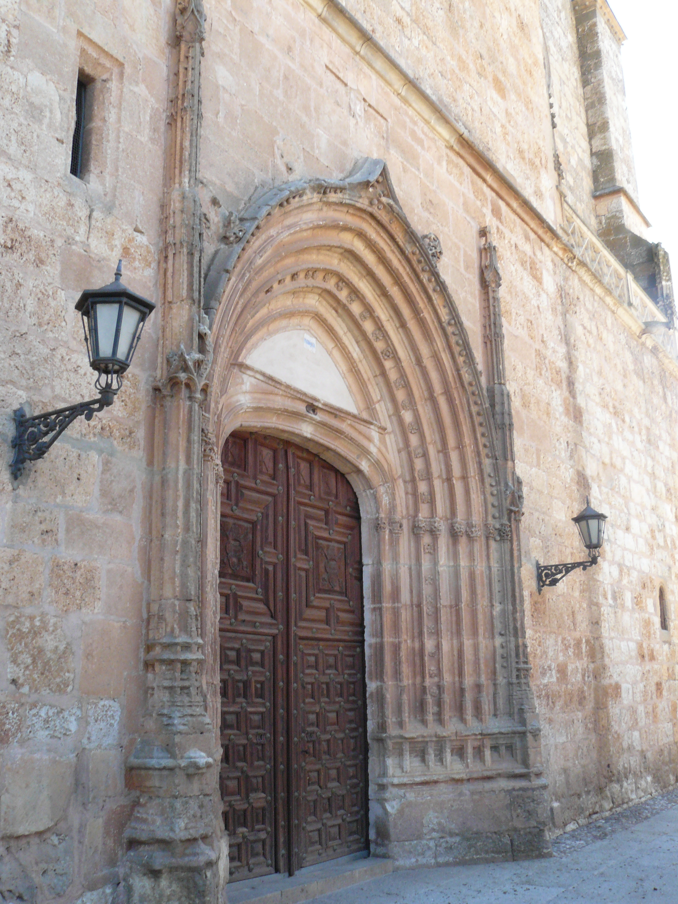 Gate under the church tower, Villahoz, Burgos, Spain